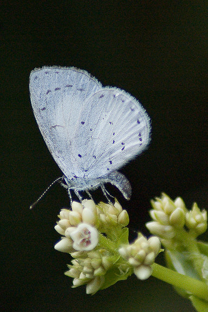 A White Hedge Blue butterfly from Kunjapanai, Mettupalayam, Coimbatore, Tamilnadu, India. Shot in October 2007